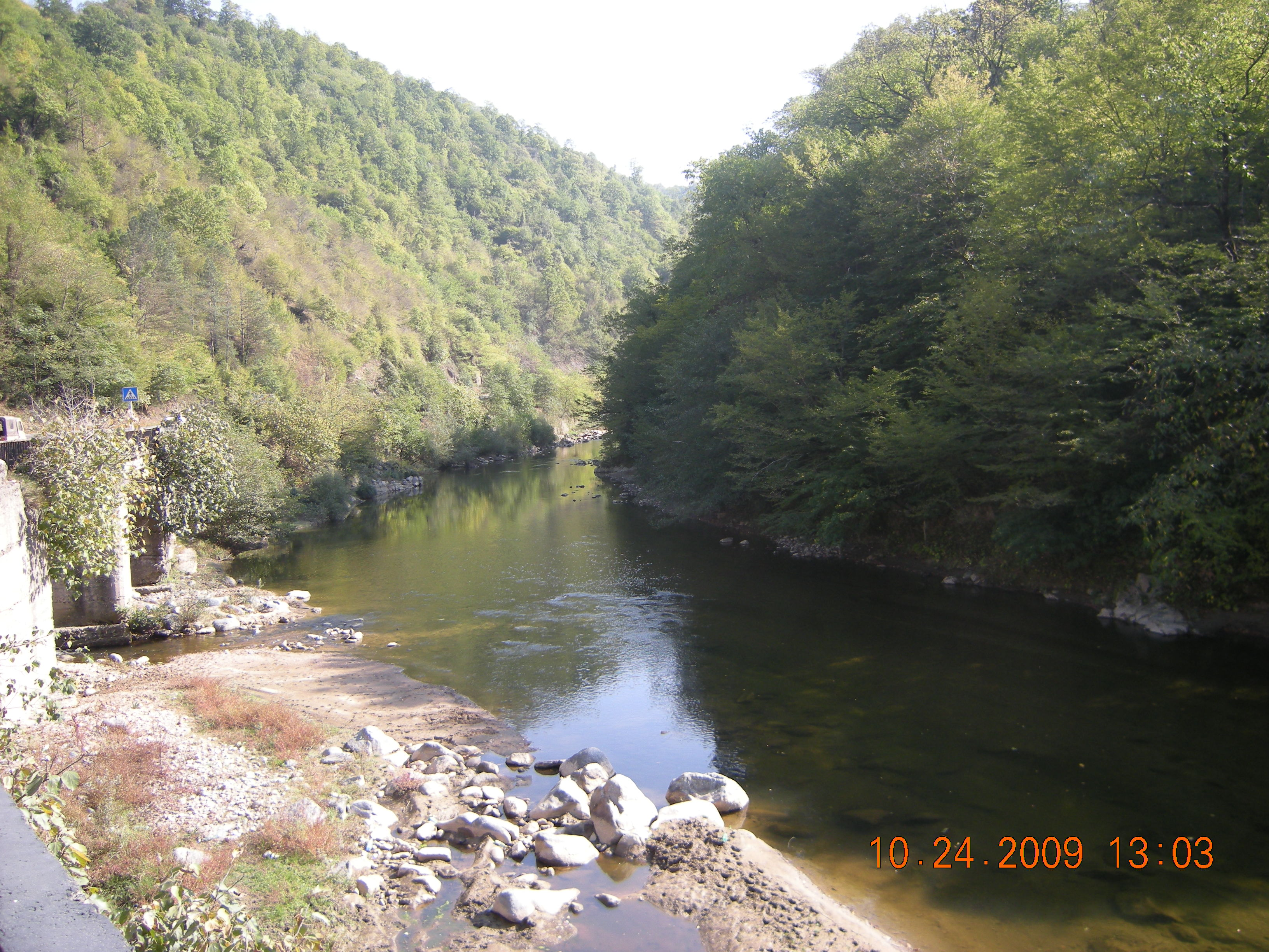 R. Dzirula